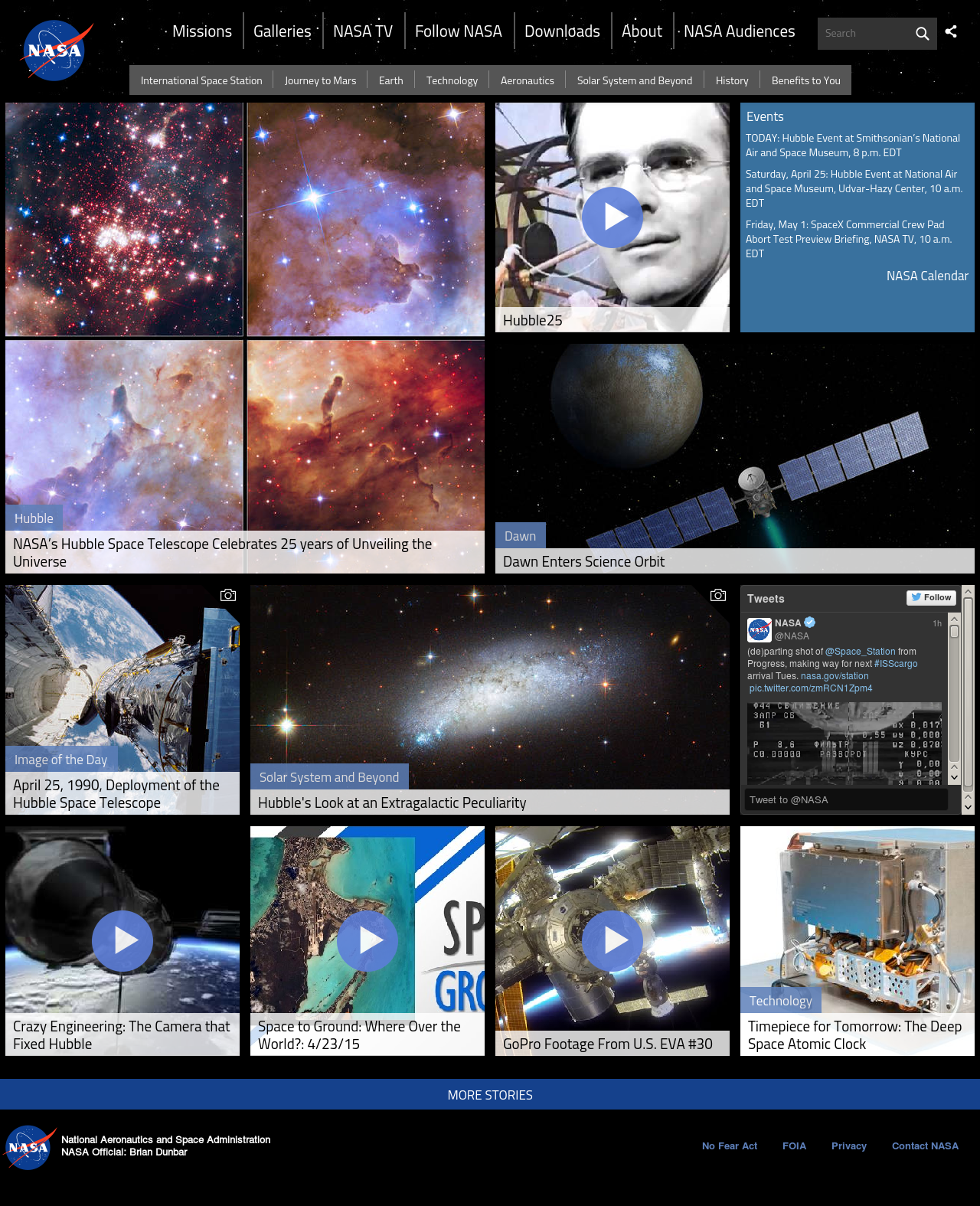 A screenshot of NASA website homepage.